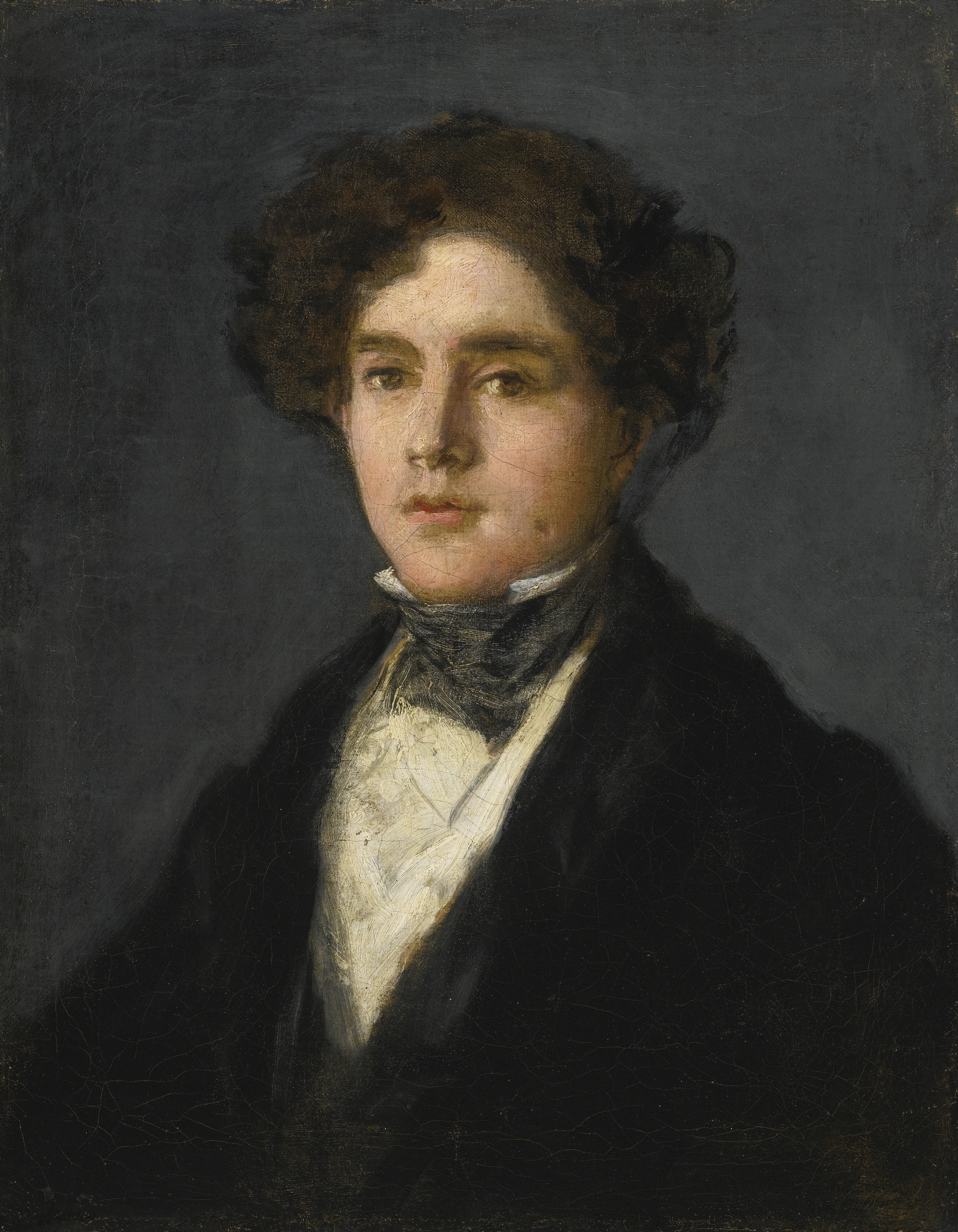 Portrait of the artist's grandson Mariano Goya wearing a black coat and black stock. Inscribed by the artist on the reverse: Goya á su/ nieto en 1827/ á/ los 81 de su/ edad [Goya, to his grandson, at 81 years old]